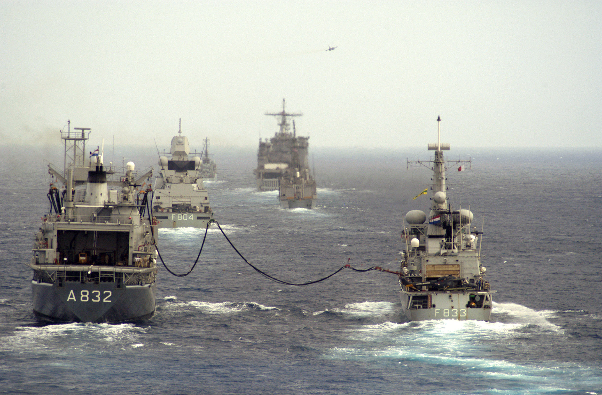 Caribbean Sea (June 7, 2006) - HNLMS Zuiderkruis (A 832) performs an underway replenishment with HNLMS Van Nes (F 833) while in formation with other ship participating in the Dutch-led exercise Joint Caribe Lion 2006 off the coast of Curacao. The amphibious assault ship USS Bataan (LHD 5) is participating in the exercise with military forces from France, Italy, Spain, United Kingdom, and Venezuela. U.S. Navy photo by Photographer's Mate 1st Class Ken J. Riley (RELEASED)